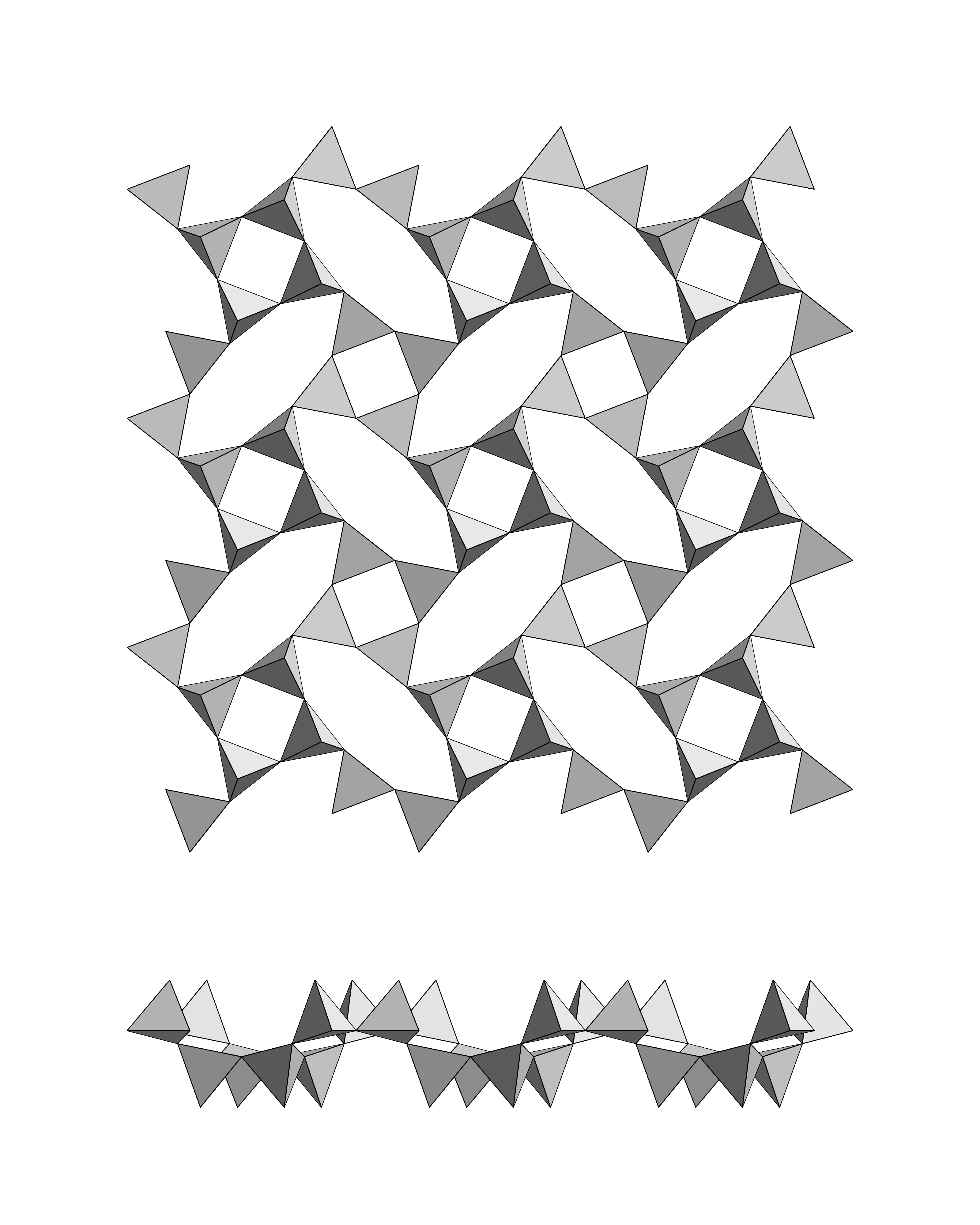 Apophyllite sheet Data from: Colville A. A., Anderson C. P., Black P. M. (1971): Refinement of the crystal structure of apophyllite I. X-ray diffraction and physical properties, American Mineralogist 56, pp. 1222-1233 Calculation of image data: Larry W. Finger, Martin Kroeker, and Brian H. Toby, DRAWxtl, an open-source computer program to produce crystal-structure drawings, J. Applied Crystallography V40, pp. 188-192, 2007 Rendering: POVRAY